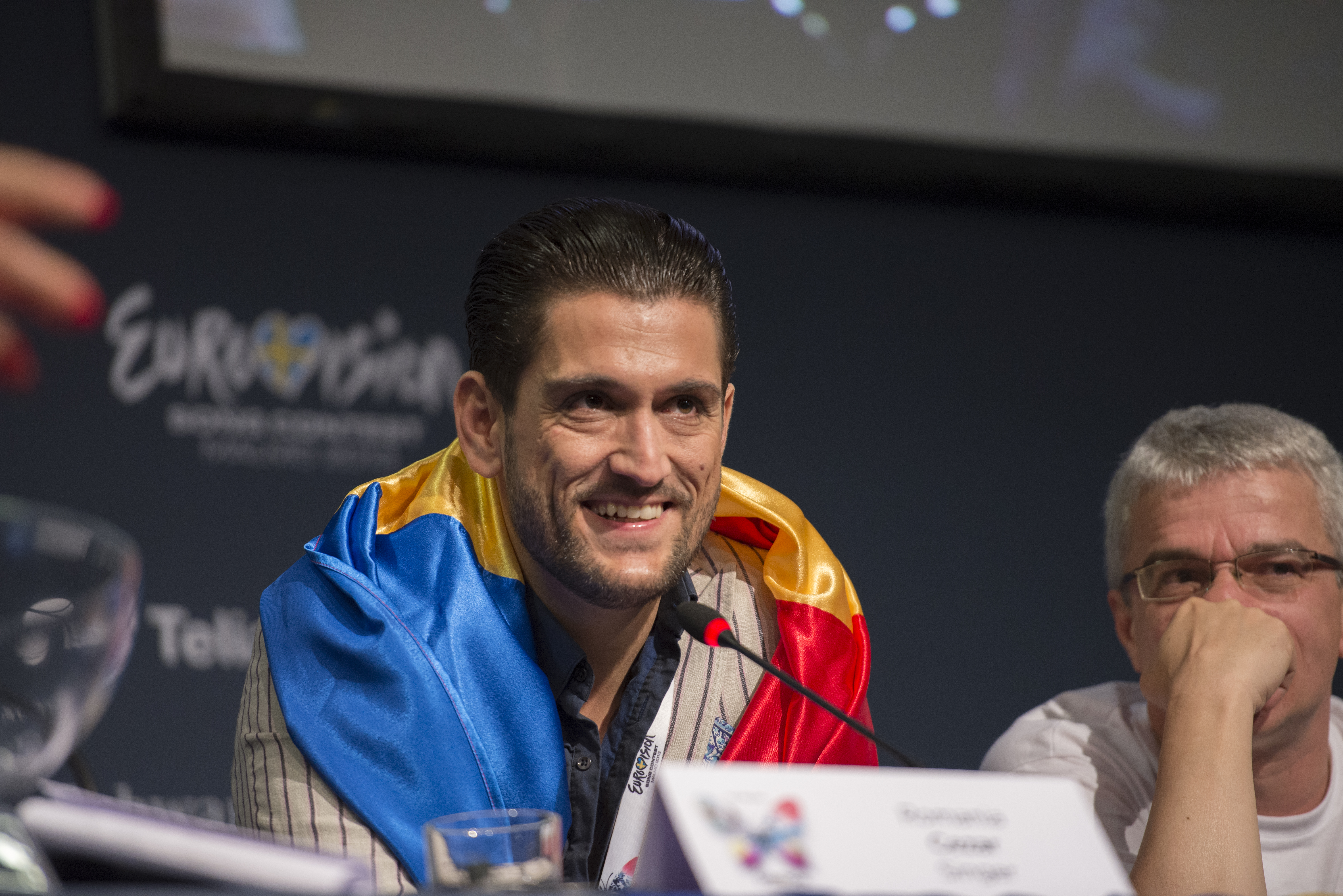 Cezar at a press conference during the Eurovision Song Contest 2013 in Malmö. (Help translate this text)